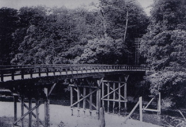 Wooden bridge of Tokaido at Tamura River, Koka, Shiga, Japan